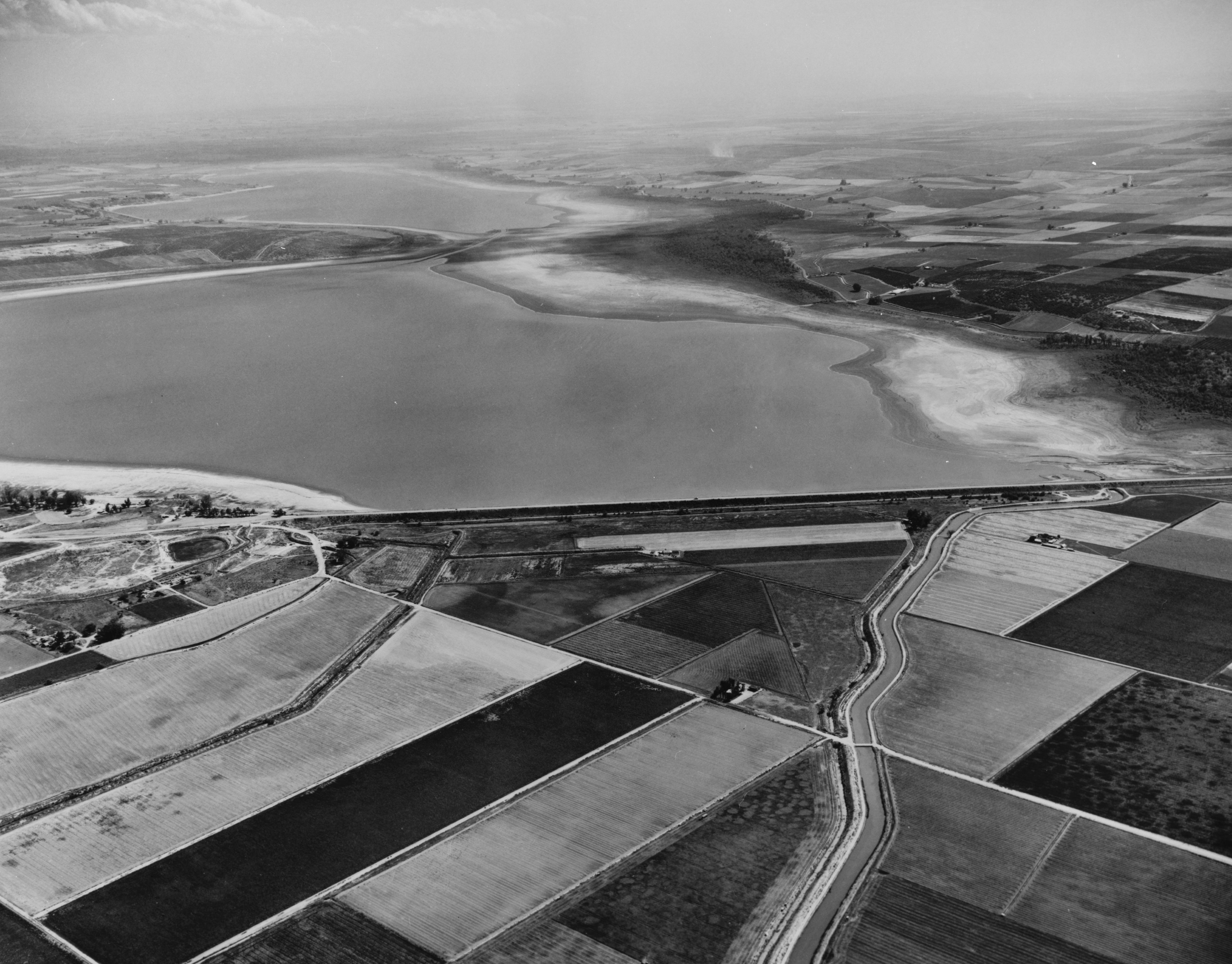 The Diversion Dam and Deer Flat Embankments across the Boise River near Boise, Idaho, United States. Constructed in 1909, the complex is listed as a historic district on the National Register of Historic Places.